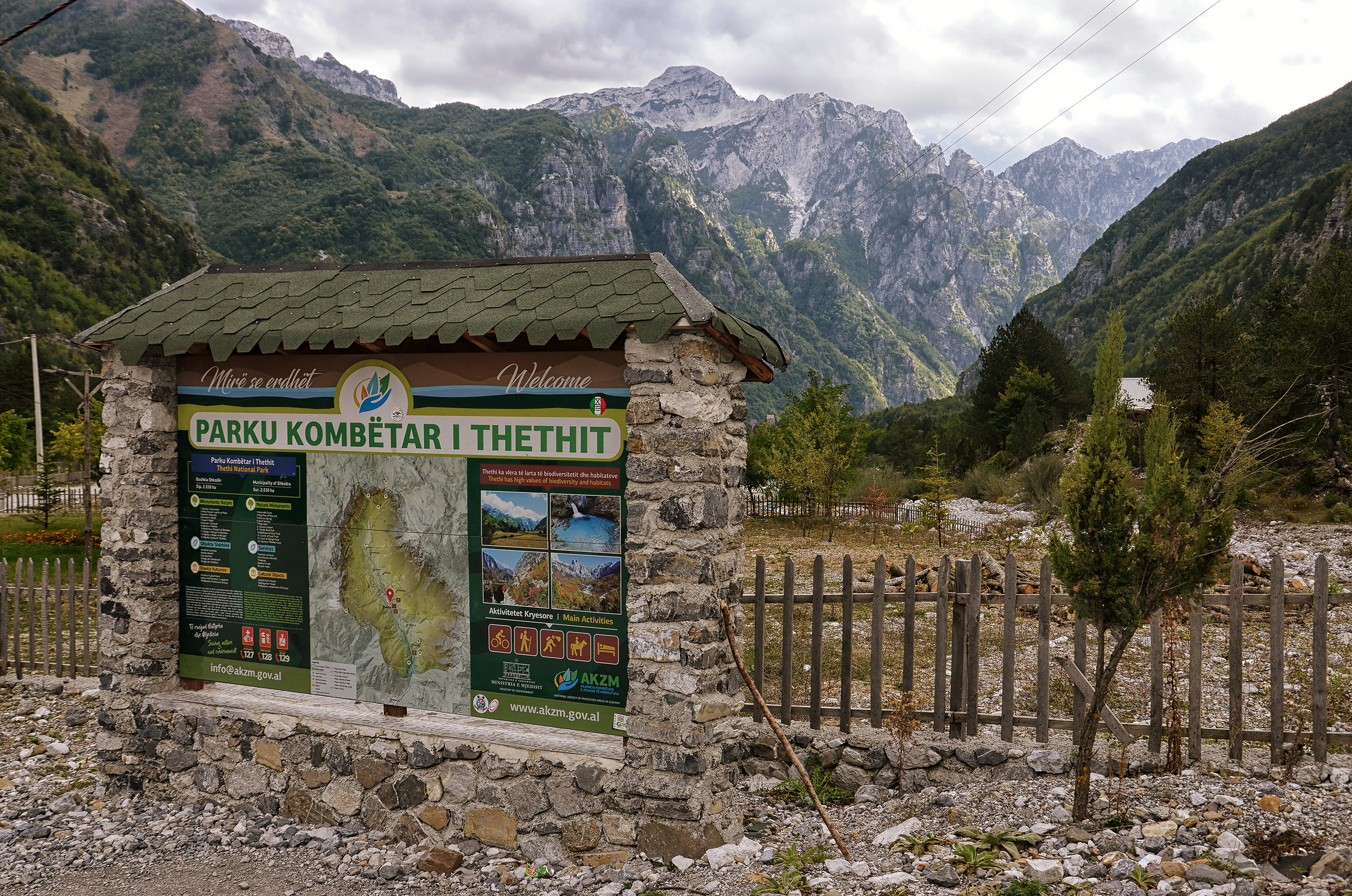 The visitor center of the Theth National Park